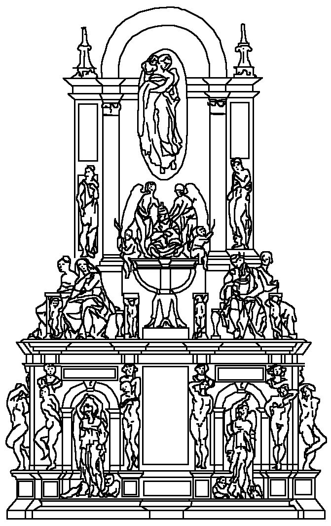 Reconstruction of the project of Michelangelo for the Julius II Tomb dated 1513 (2nd project). Inspired to reconstruction of F. Russoli, 1952